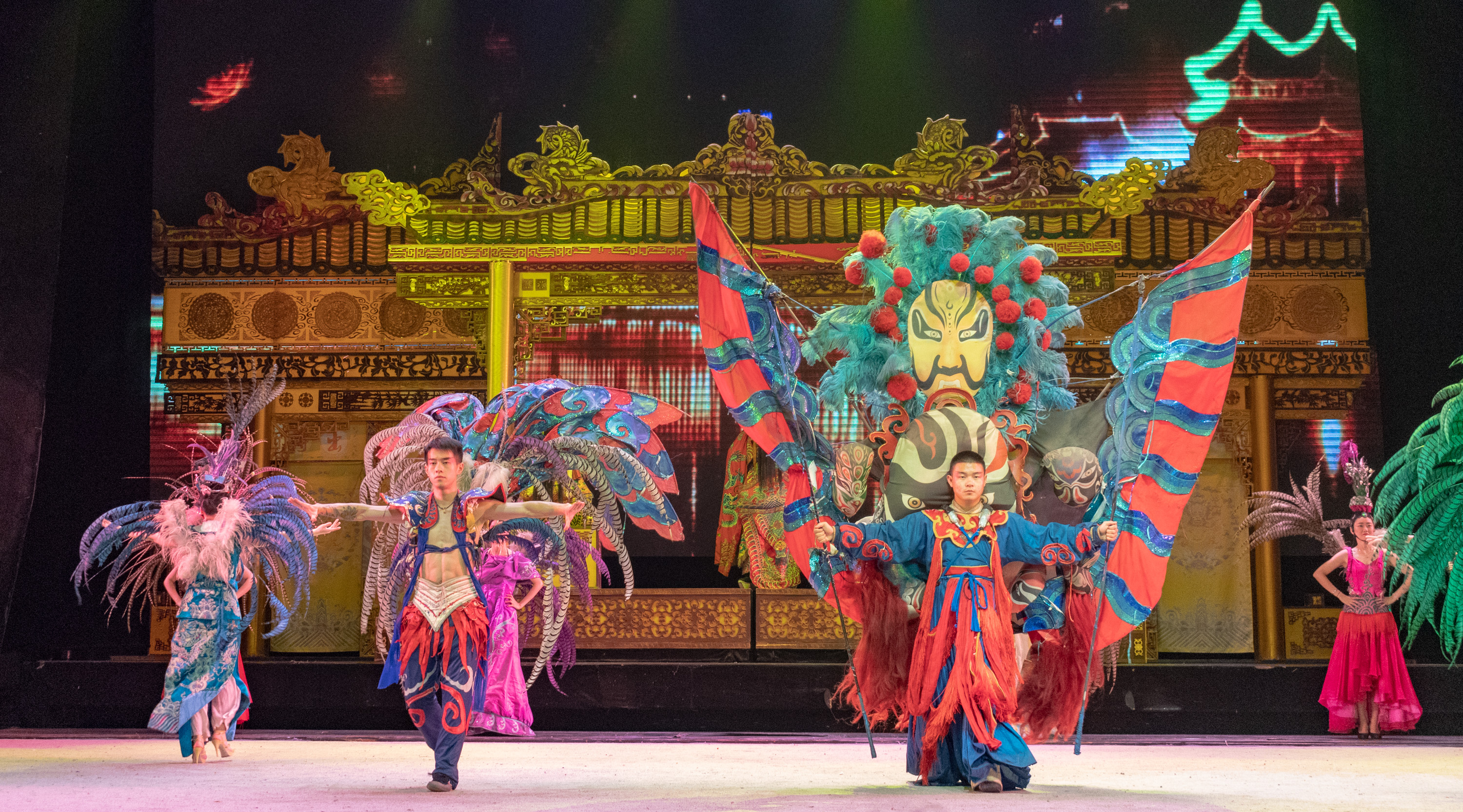 Sichuan opera Chengdu